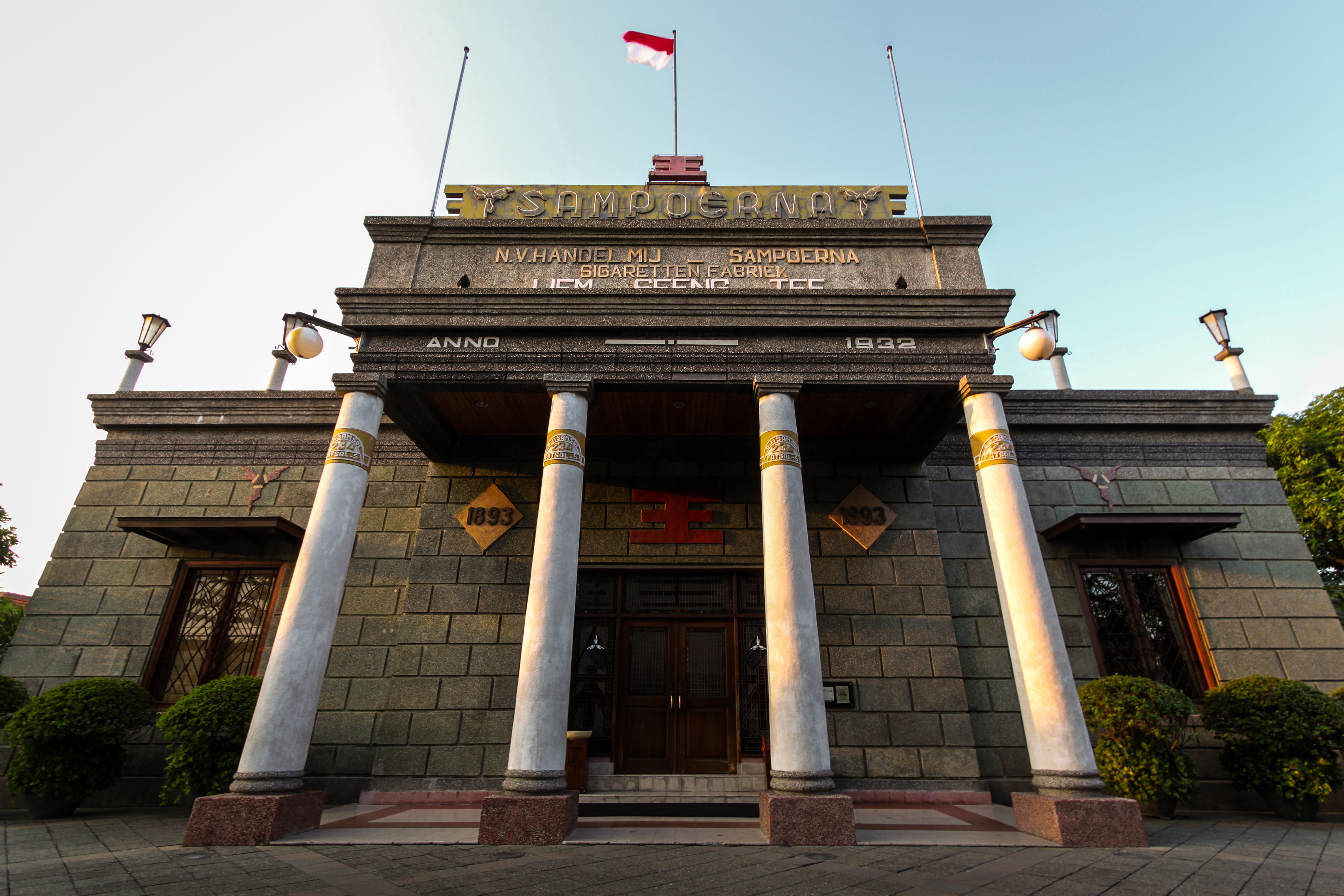 House of Sampoerna Mei 2015